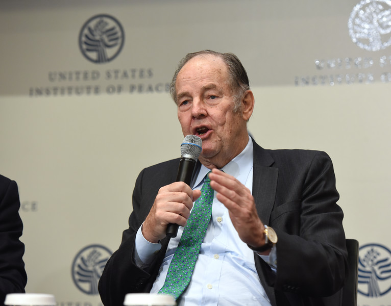 Governor Tom Kean On April 23rd, the Task Force On Extremism in Fragile States released their final report. For more information on the recommendations in the final report, visit